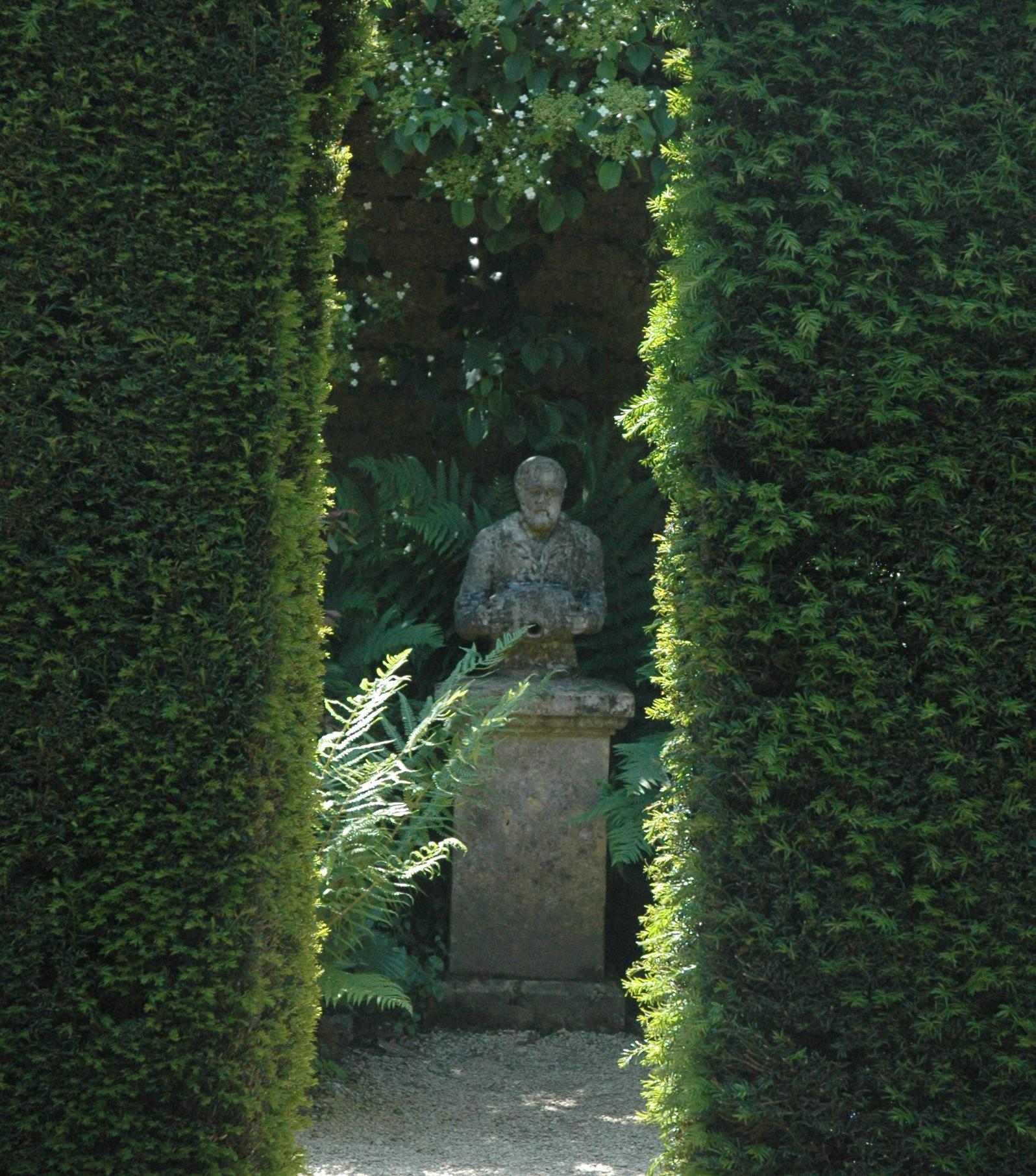 Hidcote Manor Garden